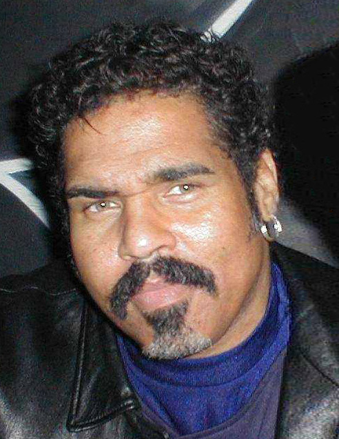 In the center, Afro-American rapper Wonder Mike (member of The Sugarhill Gang) in Springfield, Massachusetts, United States. English Wikipedia user Alkivar is to the left of Mike, on the far right of the picture.